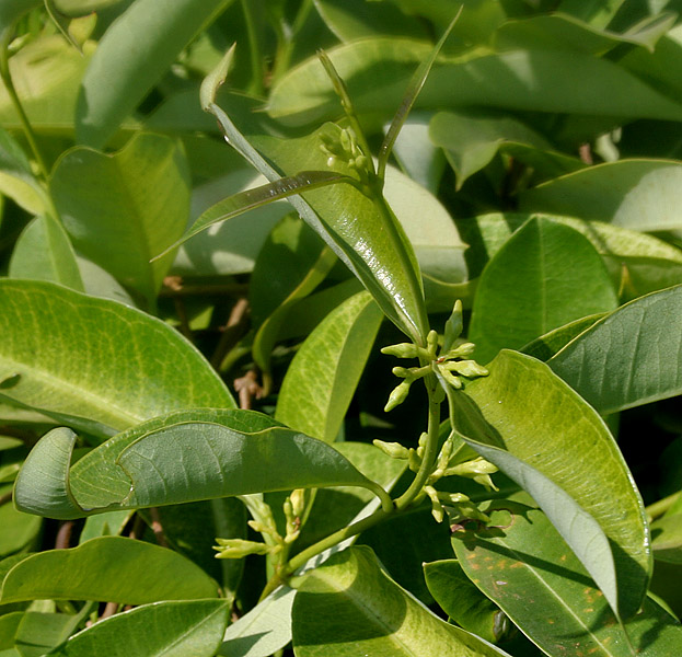 Cryptolepis buchananii (Syn. Trachelospermum cavaleriei)- Wax Leaved Climber, Indian sarsaparilla • Hindi: काला बेल kala bel, karanta • Marathi: दूध वेल dudh-vel, कावळी kavali • Tamil: பலகொடி pala koti • Malayalam: കടുപാല്വള്ളി katupaalvalli • Telugu: అడవిపాలతీగ adavipalatiga • Kannada: ಮೆದ್ಧಗೂಳಿ ಹಮ್ಬು medhaguli hambu • Oriya: Maloti • Sanskrit: कृष्णसारिव krishnasariva- in Herbal Garden, in Rangareddy district of Andhra Pradesh, India.